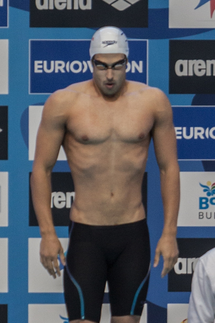 Swimmer Itay Goldfasen at the 2015 European Short Course Championships in Netanya